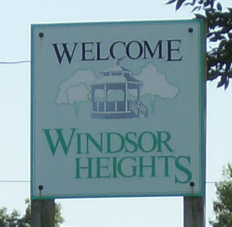 Windsor Heights, Iowa, welcome sign